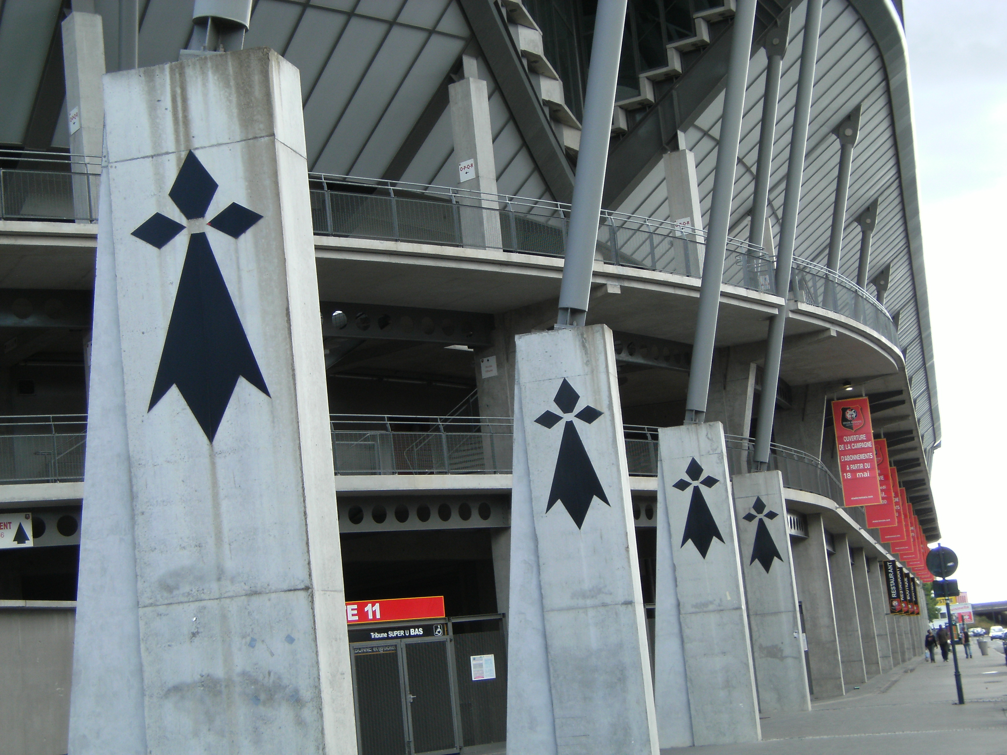 Ermines on the pillars of Lorient stand, Stade de la Route de Lorient